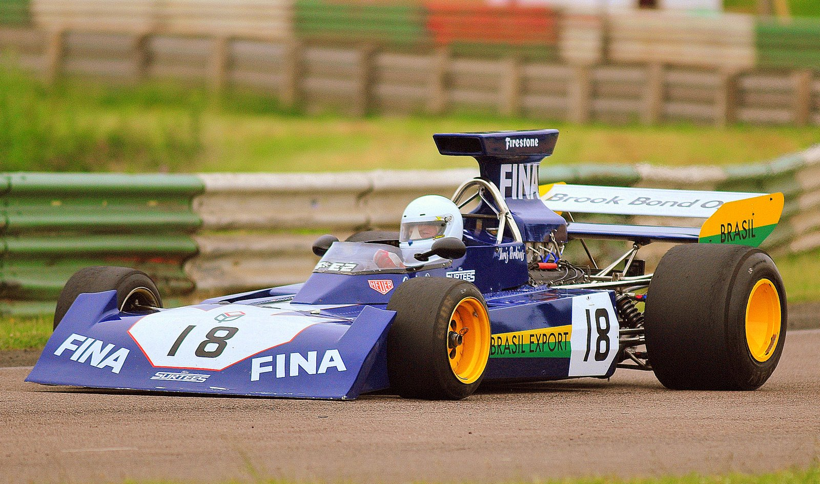 A 1973 Surtees TS14 Formula One car, on test at Mallory Park, June 2009.